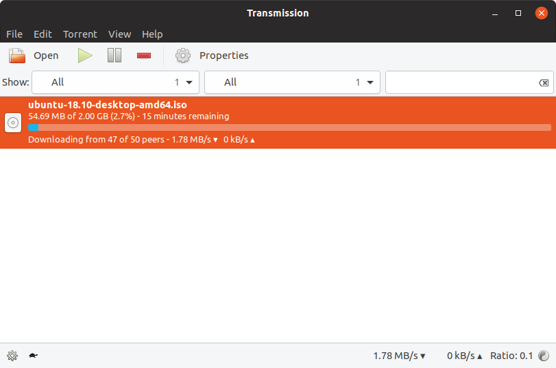 A screenshot of Transmission 2.94 running under Ubuntu 18.10